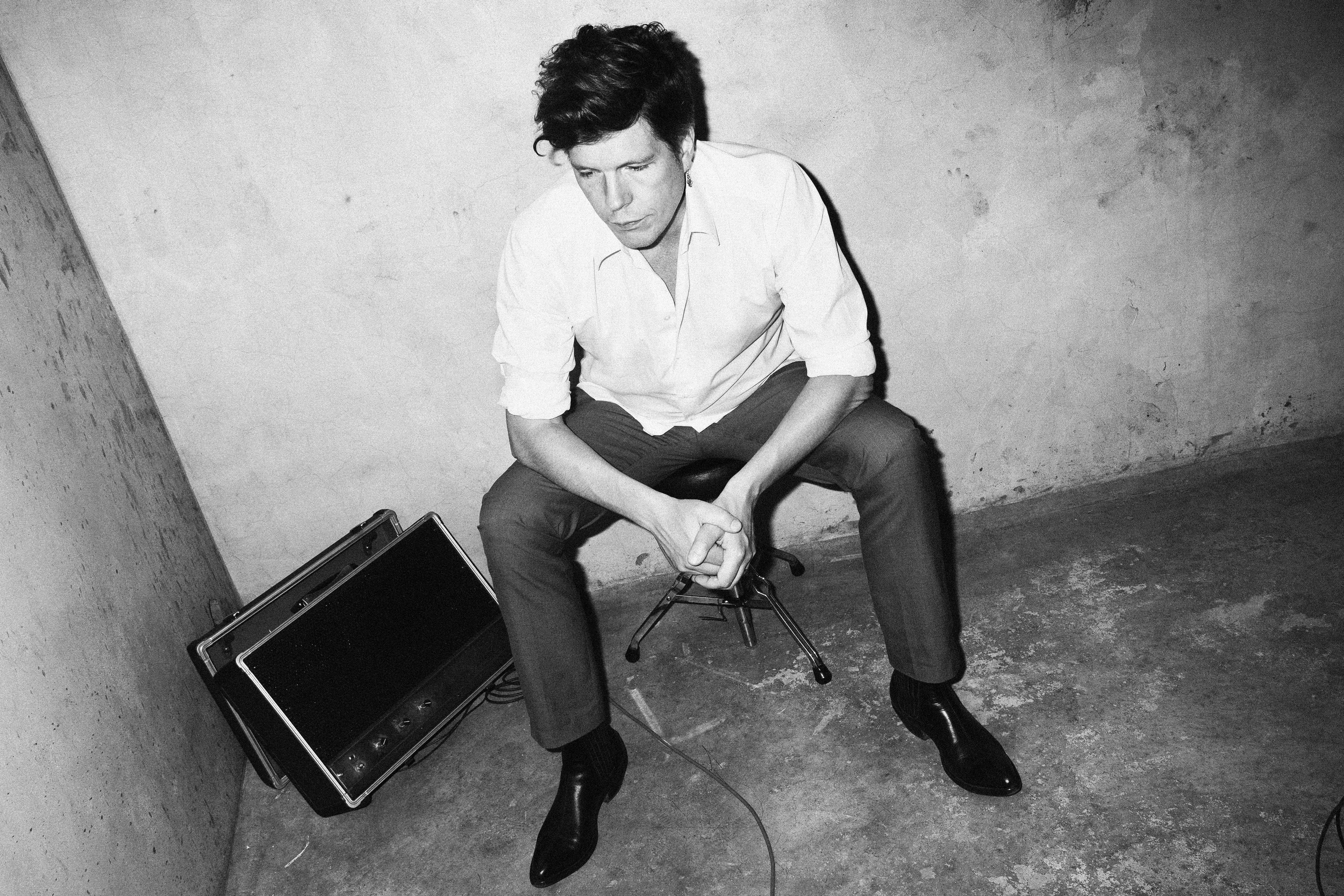 Mikael Herrstrom - A No Family affair press photo by Valdemar Asp